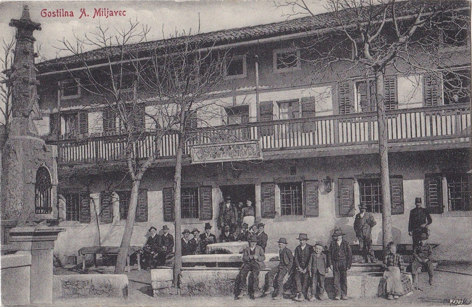 Postcard of Deskle.